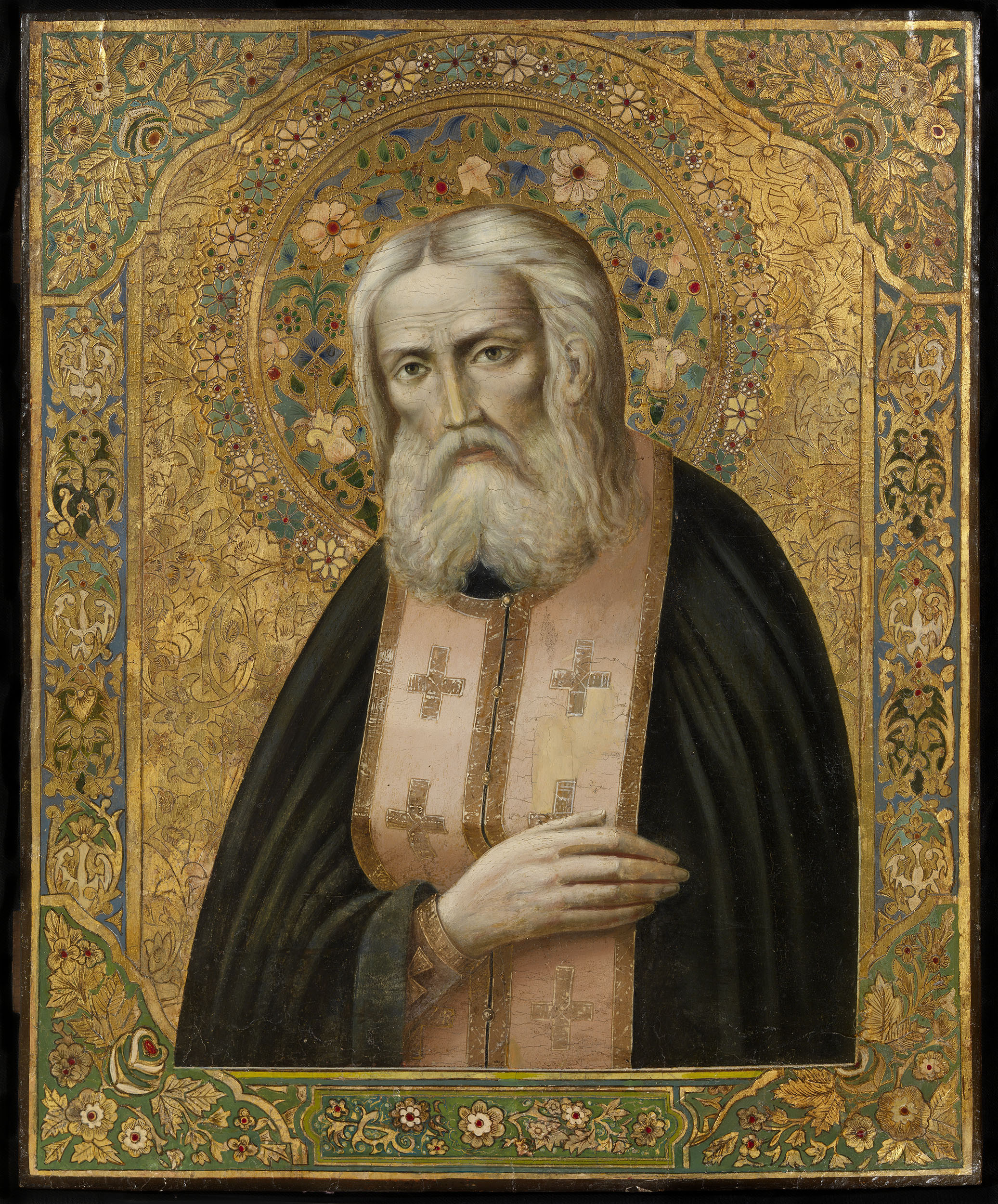 ST SERAPHIM OF SAROV WORKSHOP OF THE SERAPHIMO-DIVEEVSKY MONASTERY (?), AFTER 1903, OIL ON PANEL 53.5 by 44 cm.